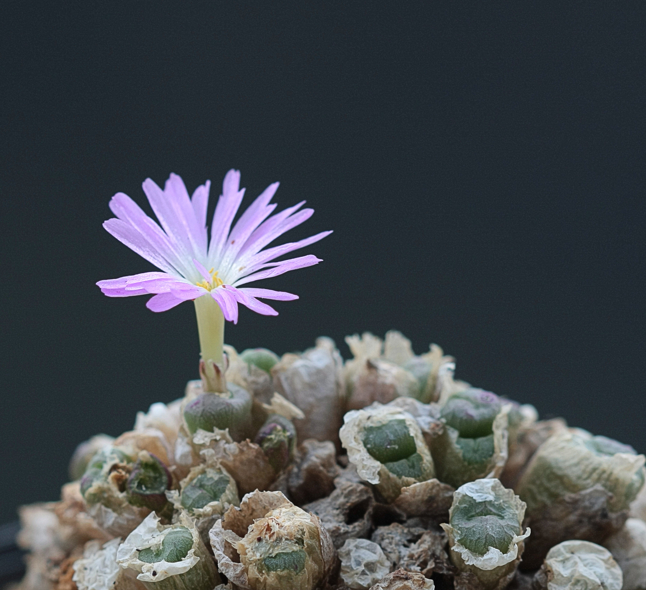 Conophytum ectypum